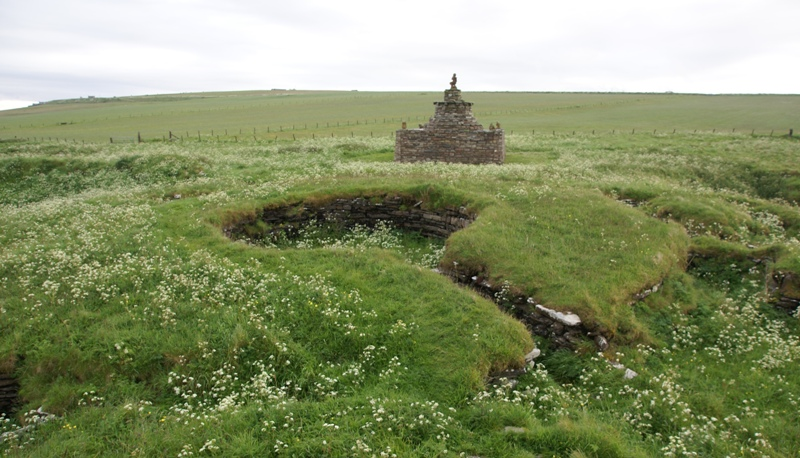 Nybster Broch, Caithness, Scotland - from north east